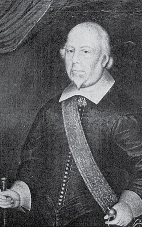 Meghan Markle's direct ancestor, Lord Hussey - beheaded at King Henry's orders in 1537